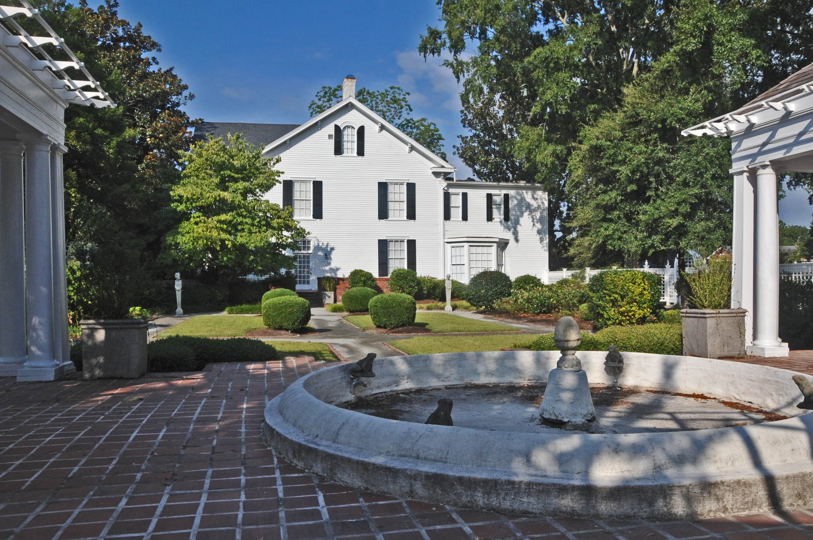 LEAK WALL HOUSE; 1853; THE PREMIER HISTORIC SITE IN THE DISTRICT AND HAS BEAUTIFUL FORMAL GARDENS